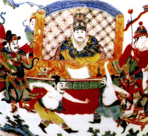 A Song Dynasty painting of a wrestling match.